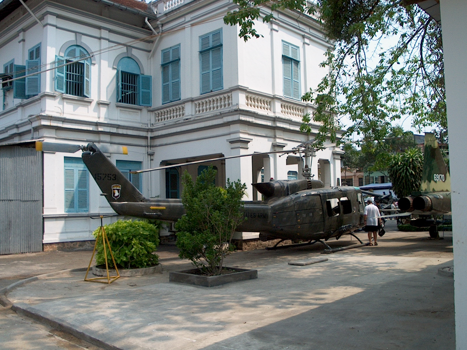 War Remnants Museum, Ho Chi Minh City (Saigon) Vietnam. On the left is a Bell UH-1H-BF Iroquois (s/n 68-15753). On the right is a Northrop F-5A-30-NO Freedom Fighter (if correct, USAF s/n 66-9170) which was transferred to the Air force of South Vietnam in 1972. The paint scheme is not historic.